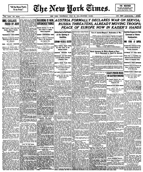 Front page of The New York Times July 29, 1914. Headline, "AUSTRIA FORMALLY DECLARES WAR ON SERVIA" announces the beginning of World War I